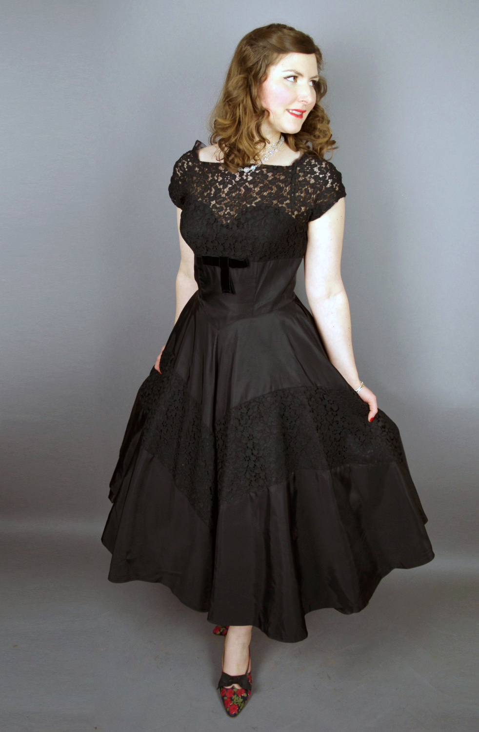 Woman wearing black taffeta dress